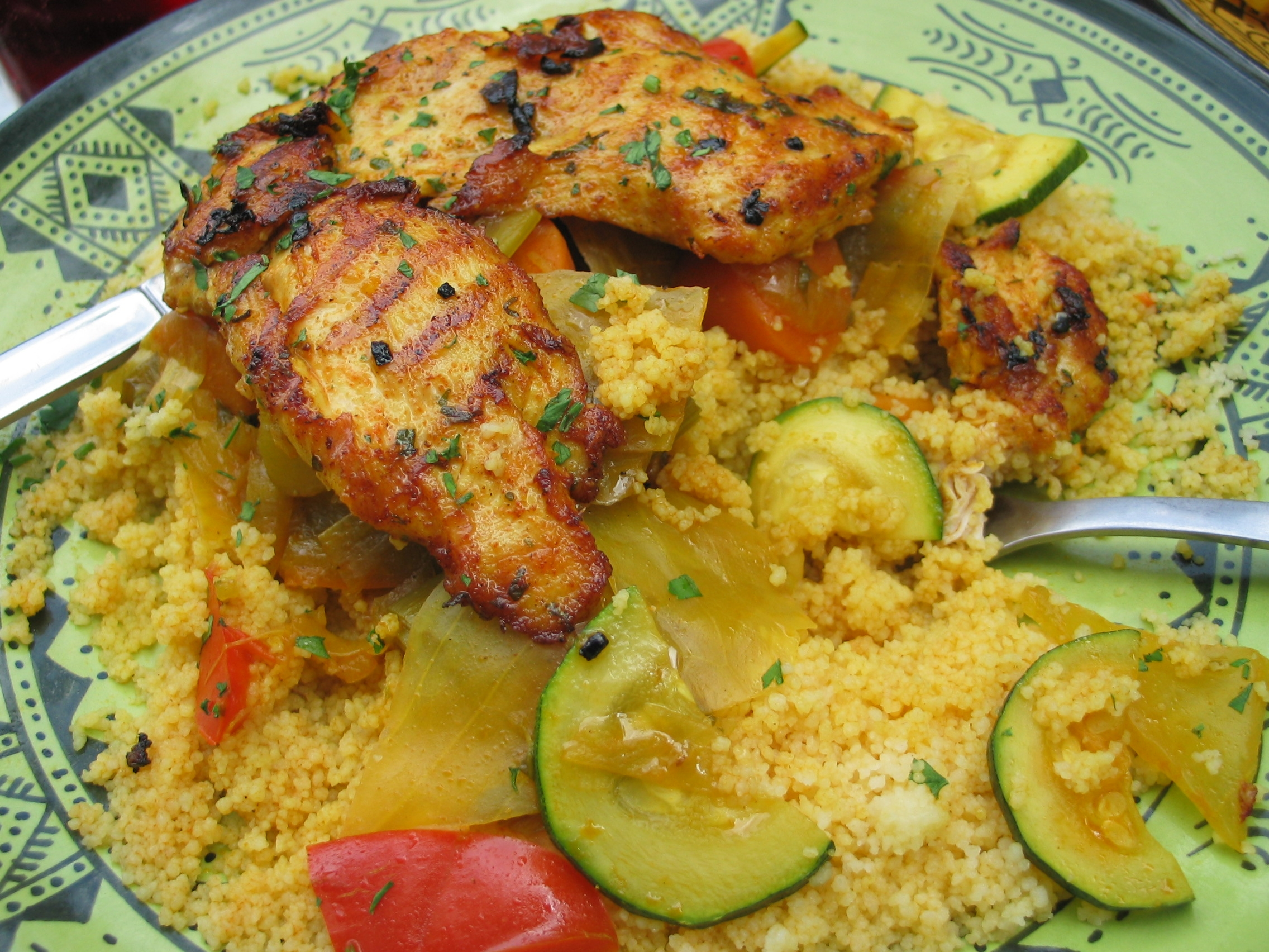 Chicken couscous